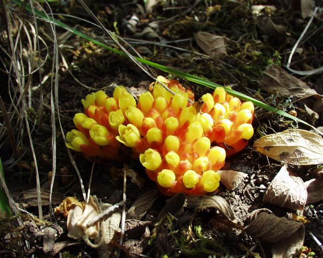 (en) Yellow Cytinus (Cytinus hypocistis), a photography originating of the internet site The accord of the autor, H. Brisse, is here. (fr) Cytinelle (Cytinus hypocistis), une photographie issue du site internet L'accord de l'auteur, H. Brisse, se situe ici. (de)Gemeiner Hypocist, (it)Ipocisto comune, (es)Frare d'estepa